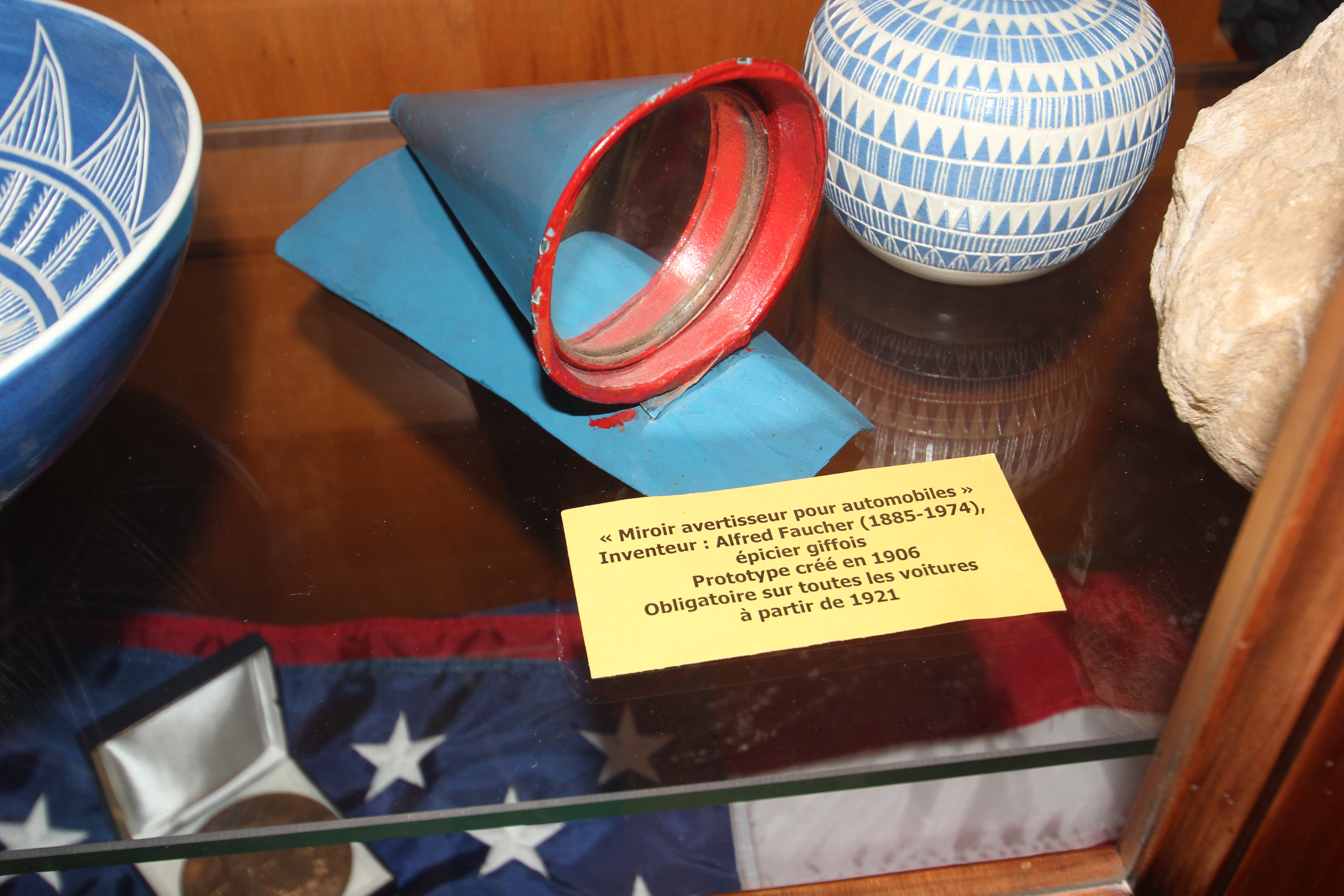 Interior of the town hall of Gif-sur-Yvette, France.